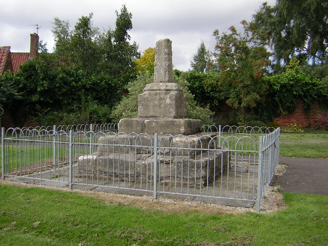 Base and broken shaft of the 14th-century stone cross in High Street, Collingham, Nottinghamshire